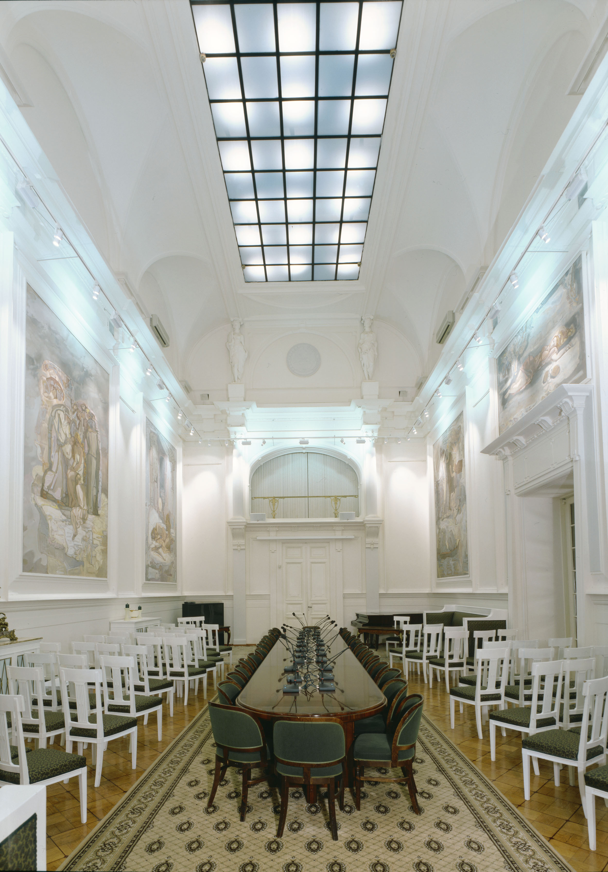 White hall of Academy.